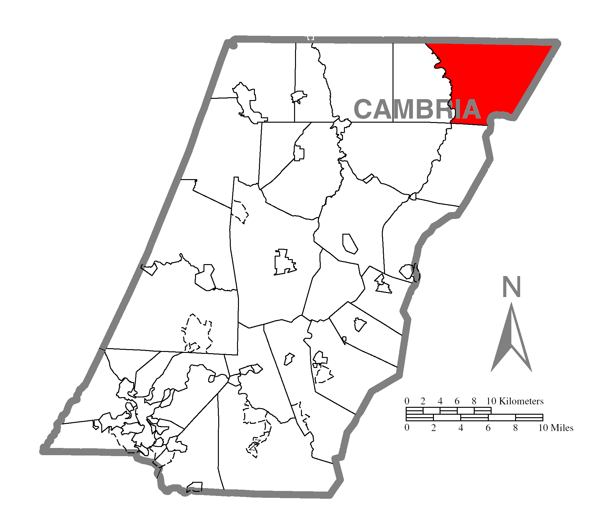 A map of Cambria County showing Reade Township, Pennsylvania (alternate) highlighted on the map.